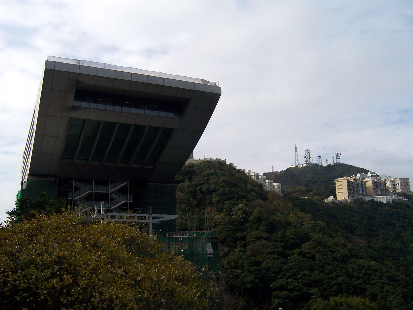 Peak Tower on Victoria Peak. Taken by Enoch Lau on 29 December 2005. As a courtesy, please let me know if you alter this image or this image description page. Original filename was 100_0804.JPG.